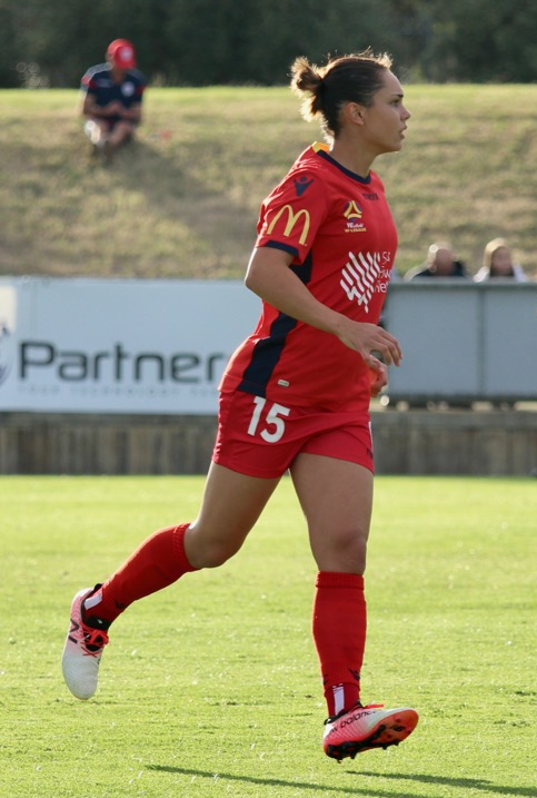 Rnd9AdeVic - Checker